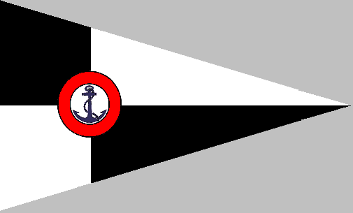 burgee